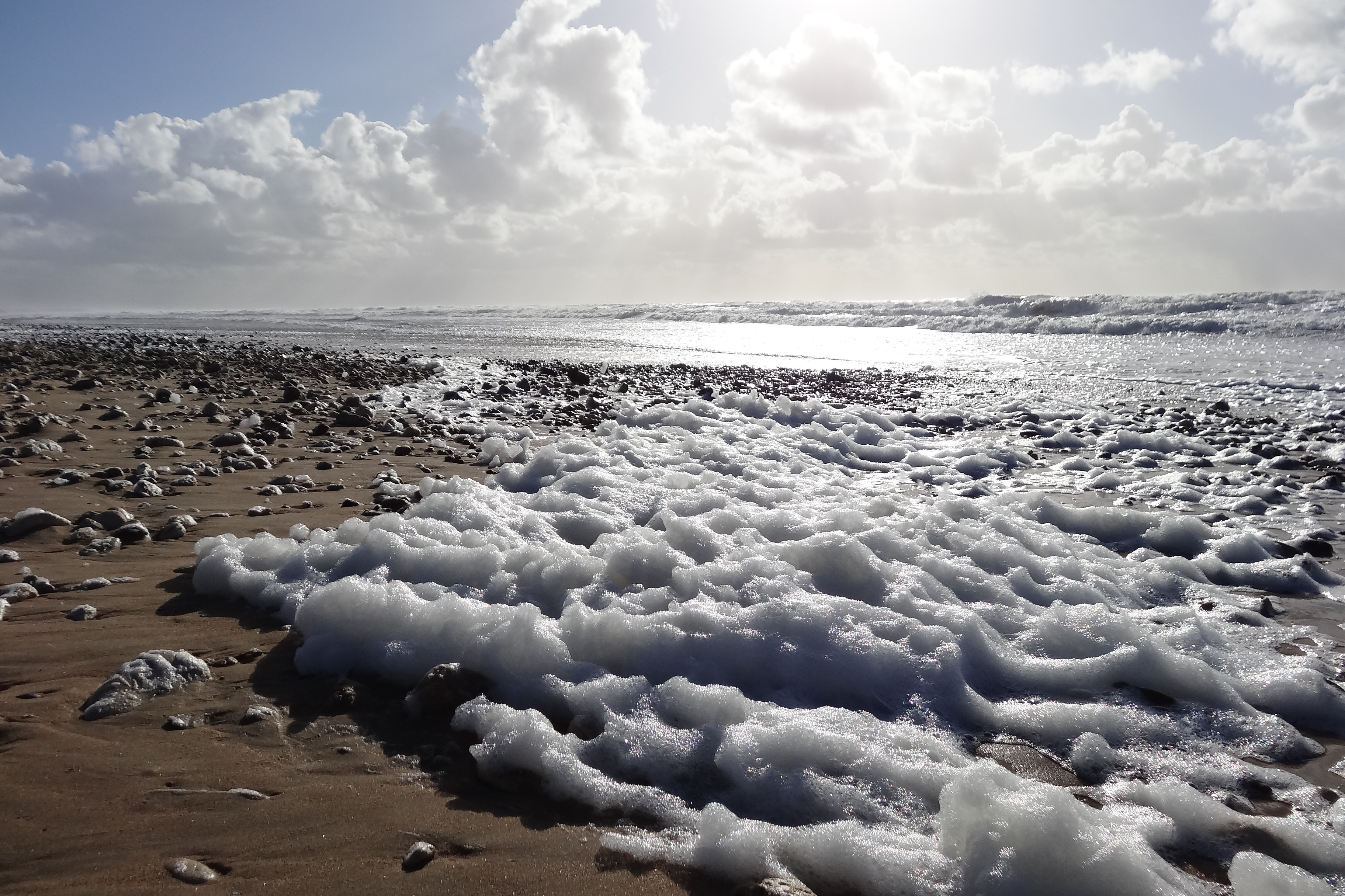 WINTER ON THE BEACH OLERON ISLAND